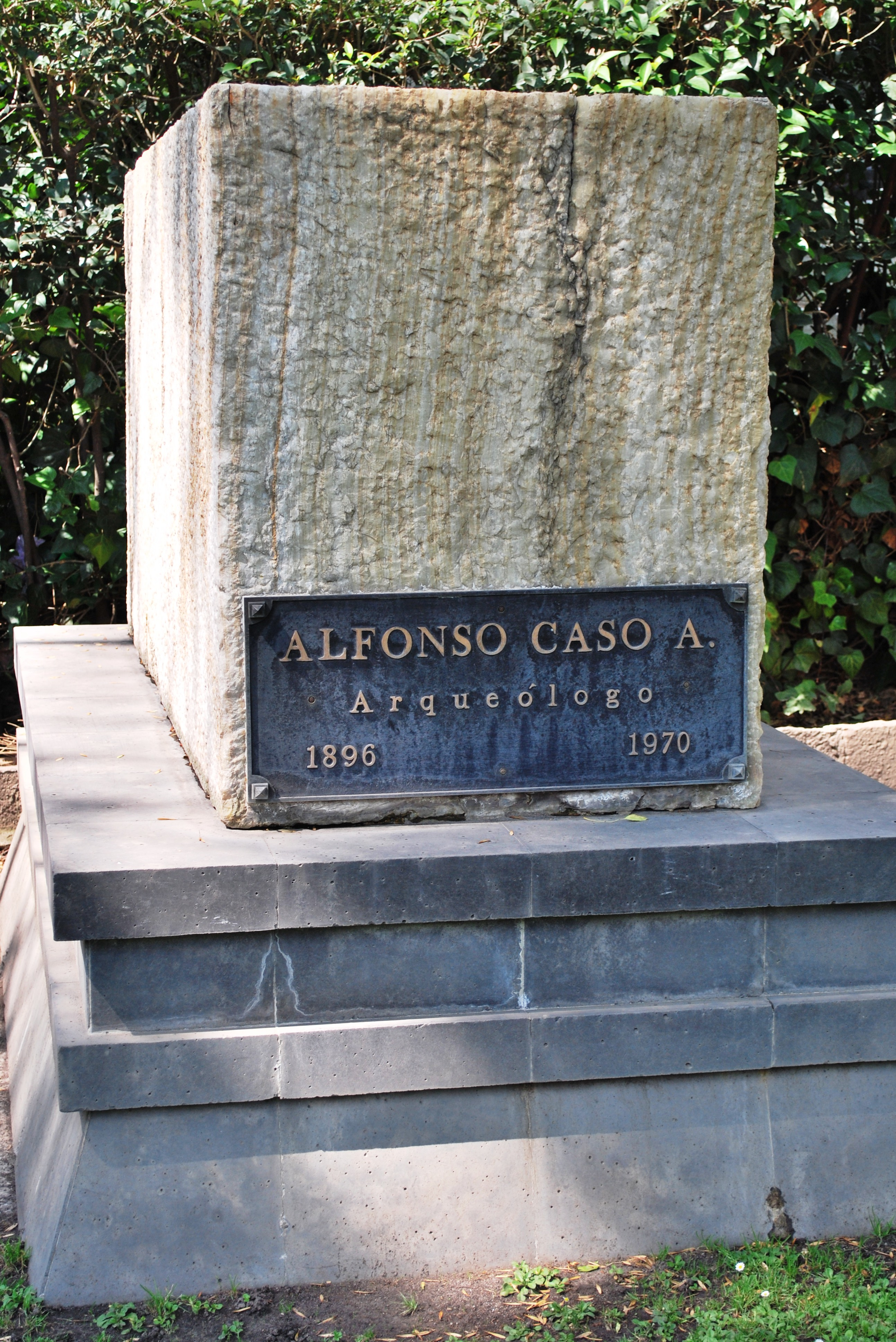 Tomb of Alfonso Caso A in the Panteon Civil de Dolores cemetery in Mexico City